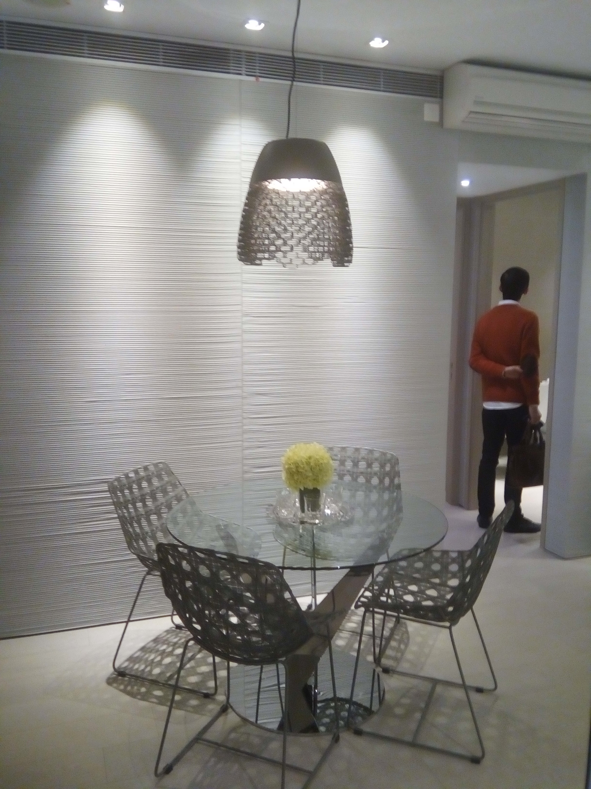 HK 荃灣 Tsuen Wan 中染大廈 CDW Building FV Tuen Mun 雙寓 2GETHER Jan 2017